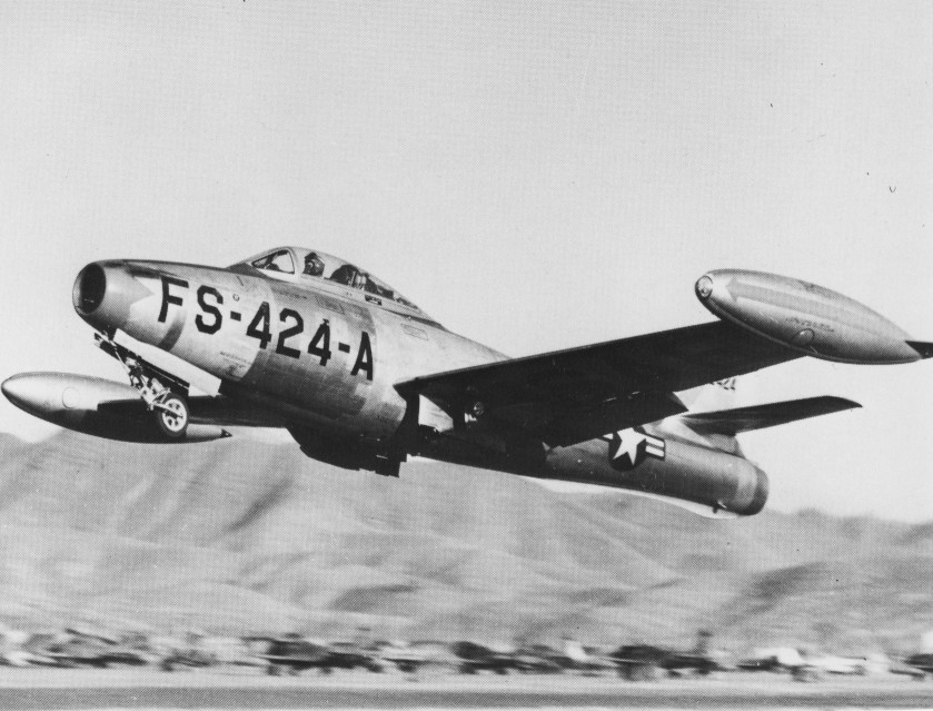 A bomb-laden U.S. Air Force Republic F-84E-15-RE Thunderjet (s/n 49-2424) from the 9th Fighter-Bomber Squadron, 49th Fighter-Bomber Wing/Group, taking off for a mission in Korea. This aircraft was shot down by flak on 29 August 1952.